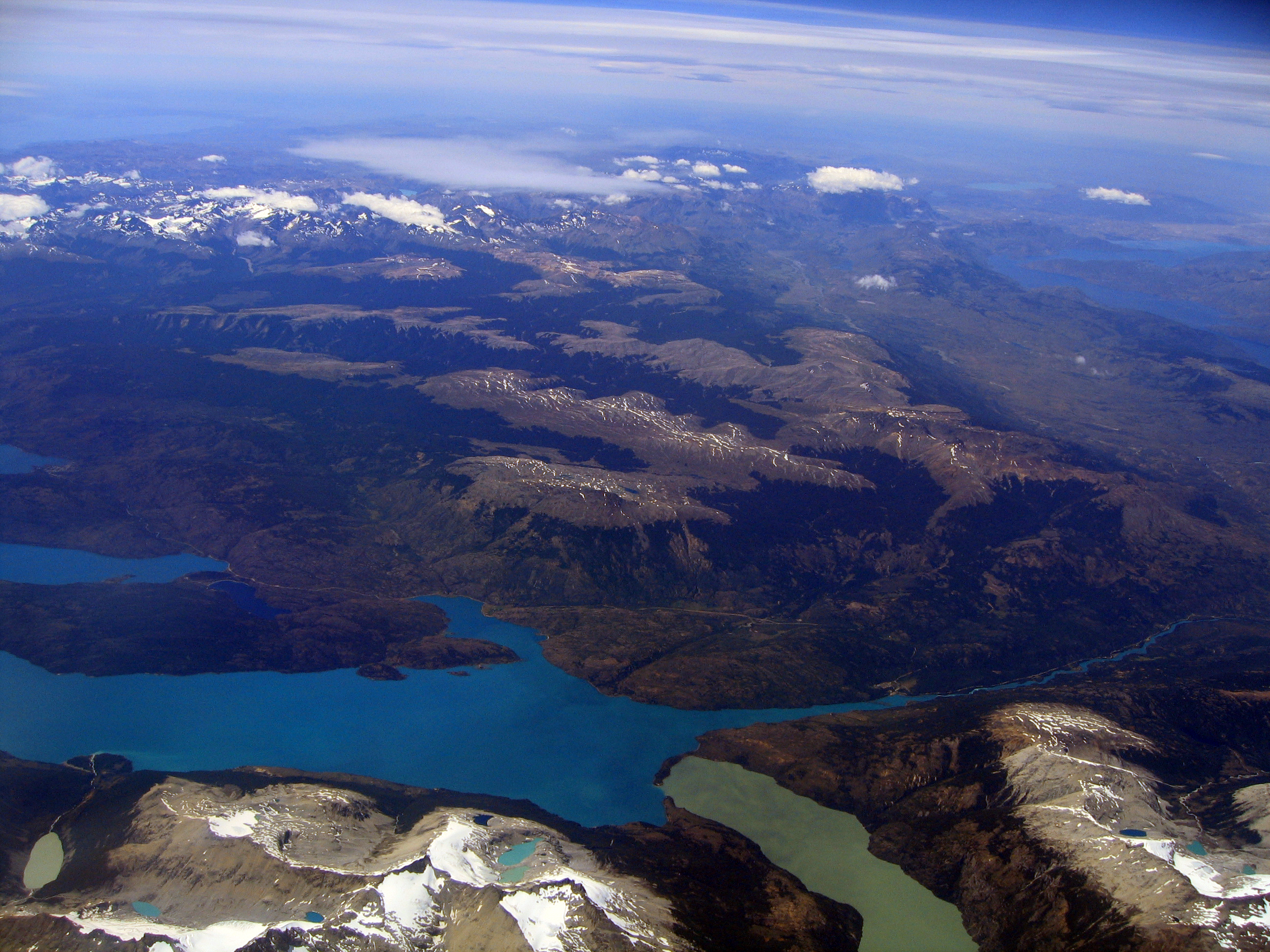 Aerial photo of an area in Patagonia, taken from a plane flying from Santiago de Chile to Punta Arenas)